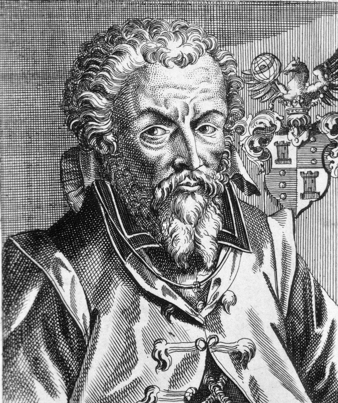 Leonard Thurneysser (1531 – 1595 or 1596)